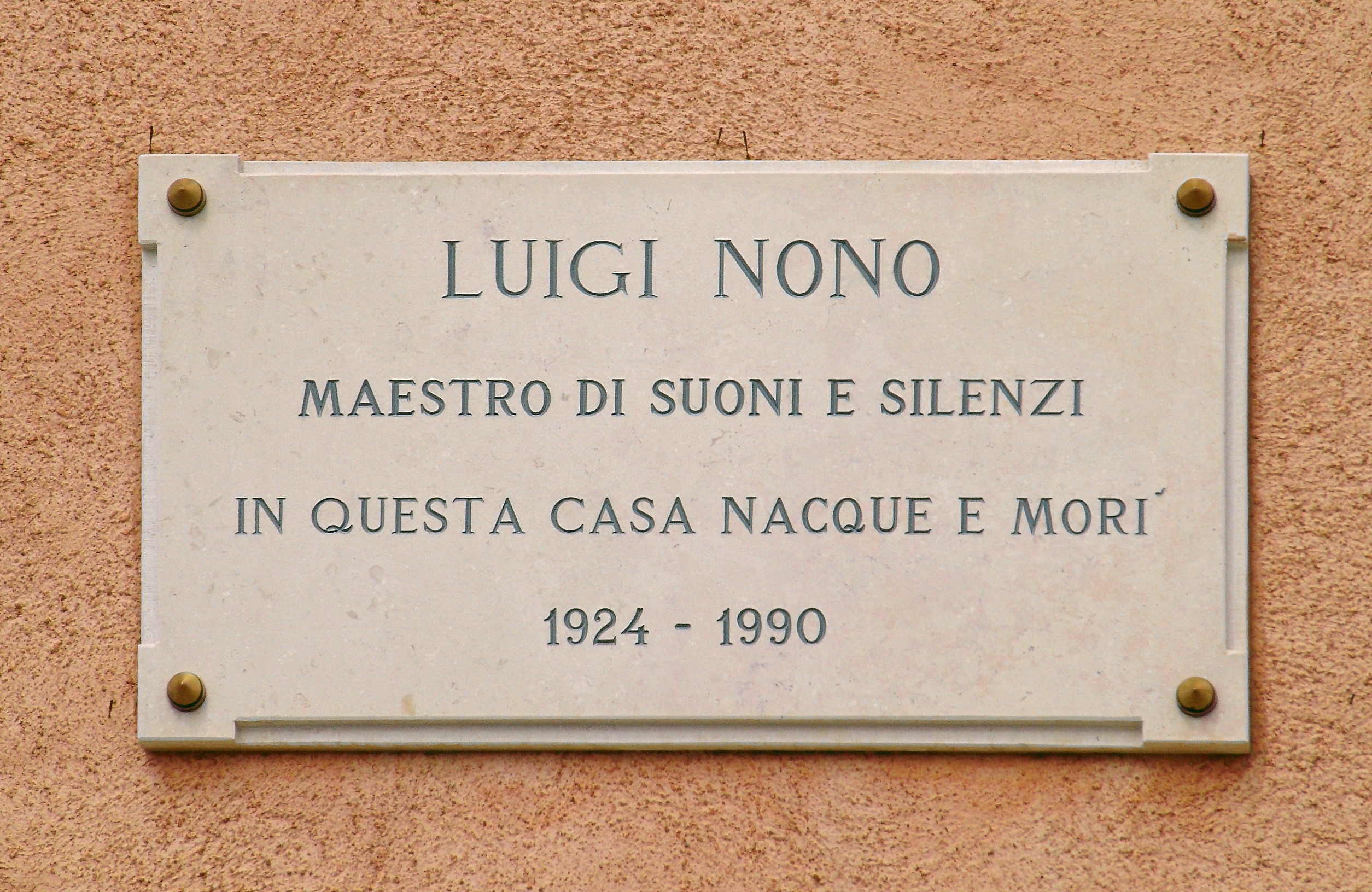 Memorial plaque on the birthplace of modernist composer Luigi Nono (1924–1990), in Venice.